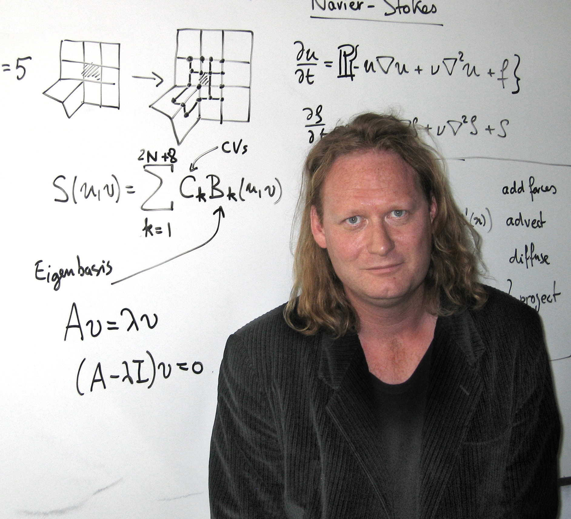 The dutch-canadian computer programmer and 3D animation expert Jos Stam, photographed by Azam Khan in May 2005.